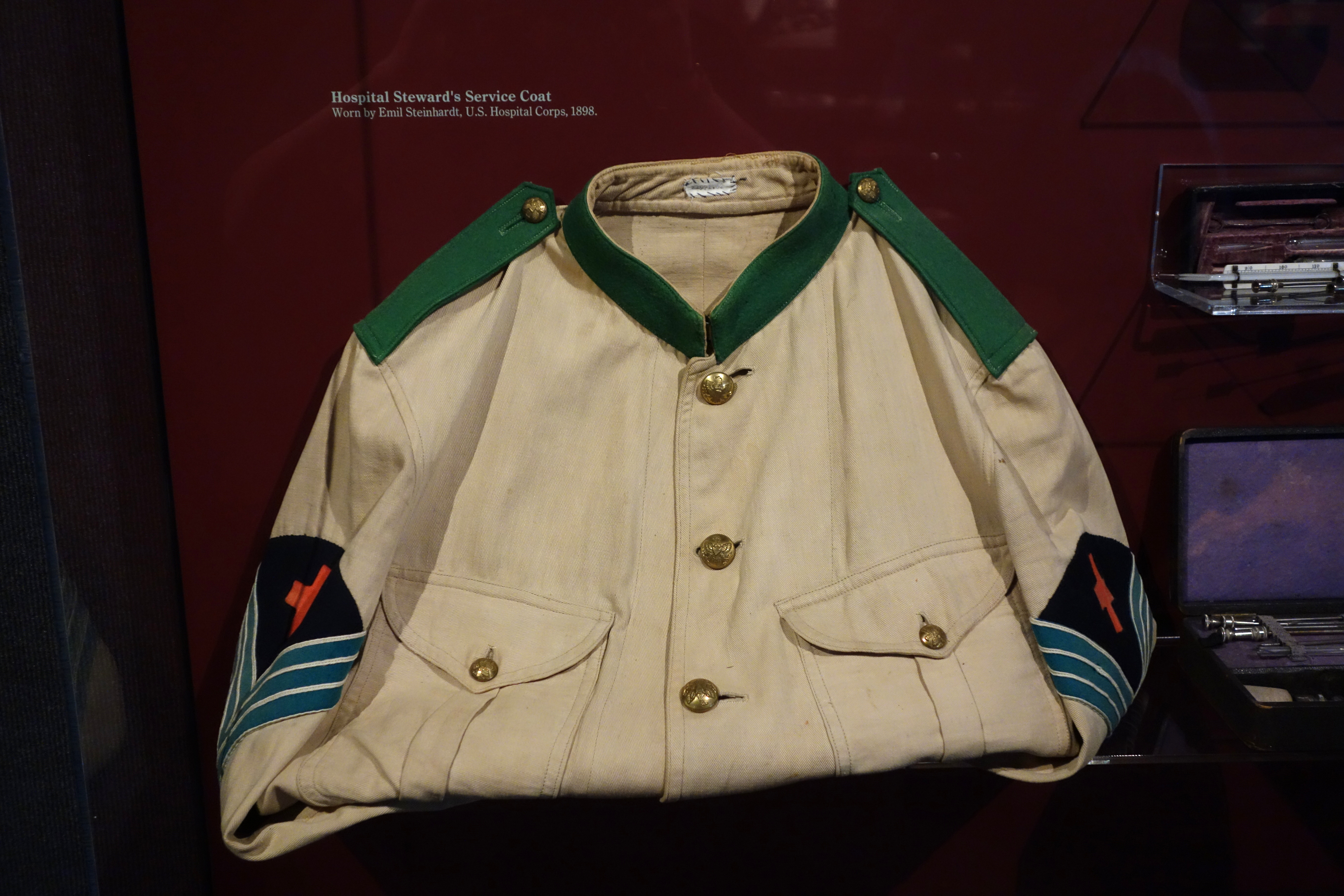 Exhibit in the Wisconsin Veterans Museum, Madison, Wisconsin, USA. This item is old enough so that it is in the public domain.